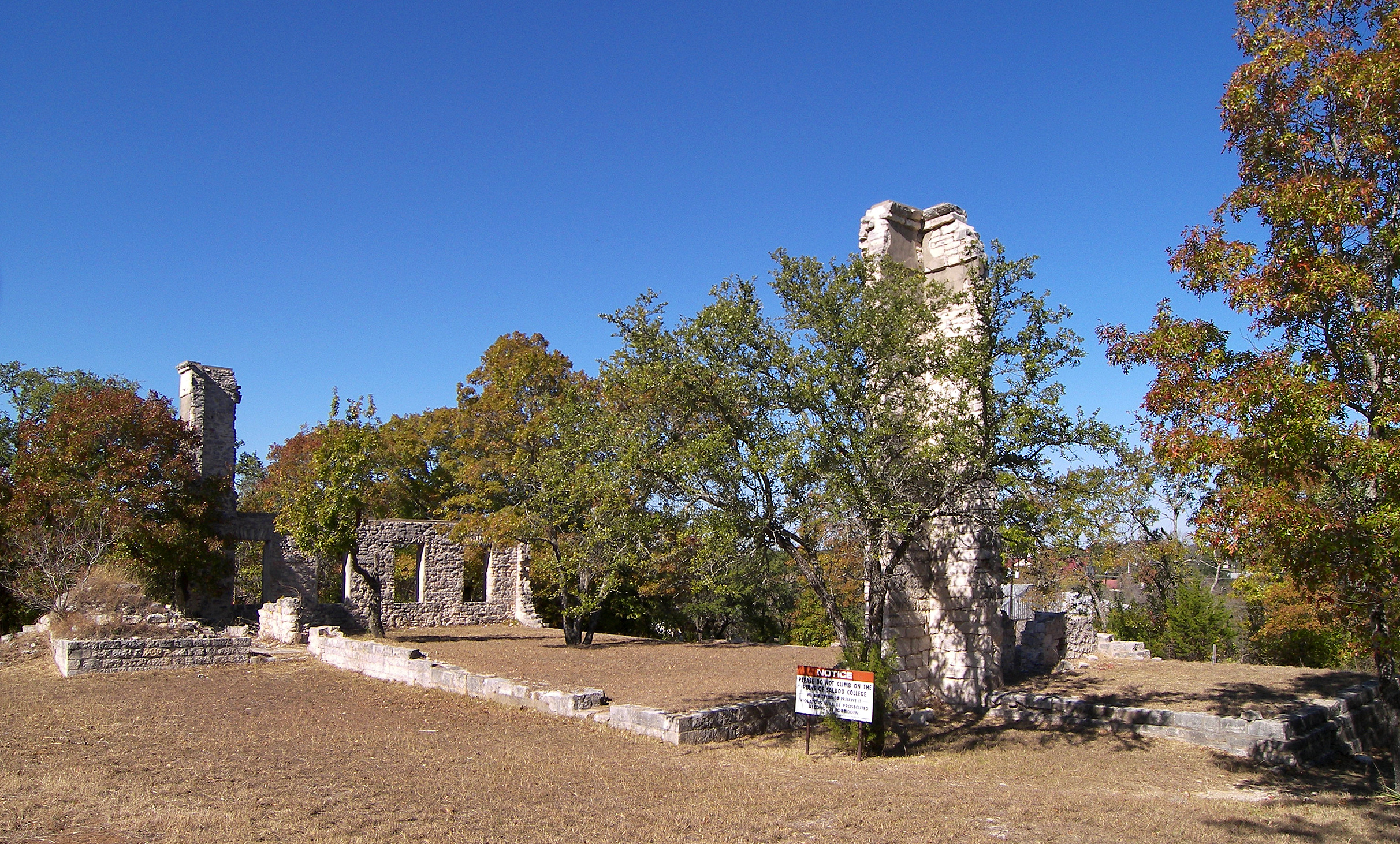 The Salado College ruins located in Salado, Texas, United States. The site was added to the National Register of Historic Places on March 1, 1985.